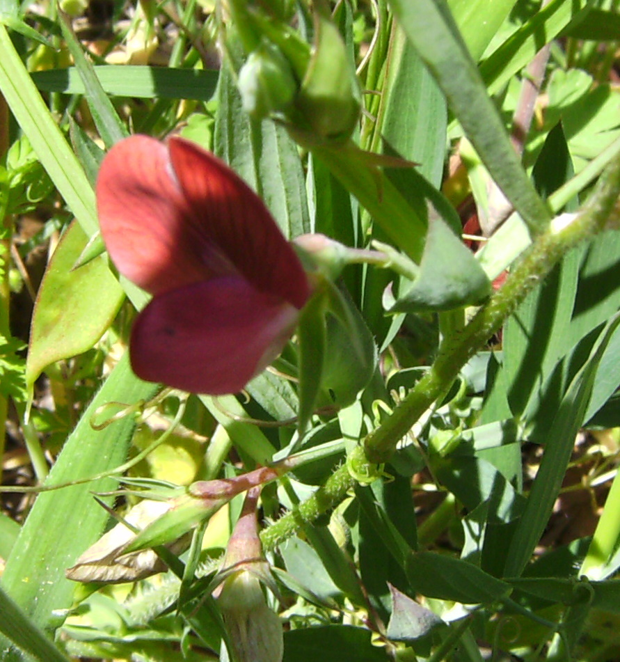 Vicia sativa flower in the wild, Castelltallat, Catalonia